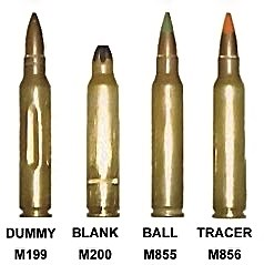 A collection of 5.56mm caliber ammunition. Image comprises parts of a product of the federal government of the United States and is therefore not subject to copyright restrictions. For original context please see U.S. Army Field Manual 3-22.9 Chapter 2 Section 11. From left to right: dummy, blank, full metal jacket and tracer bullets.